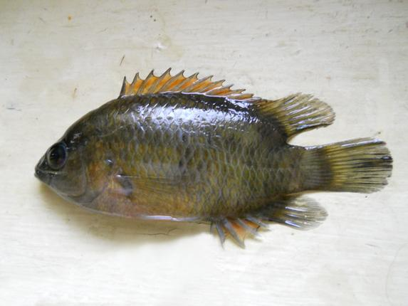 The file shows a specimen of Pristolepis pentacantha, a new species of fish discovered in January 2014 in Kerala, India.